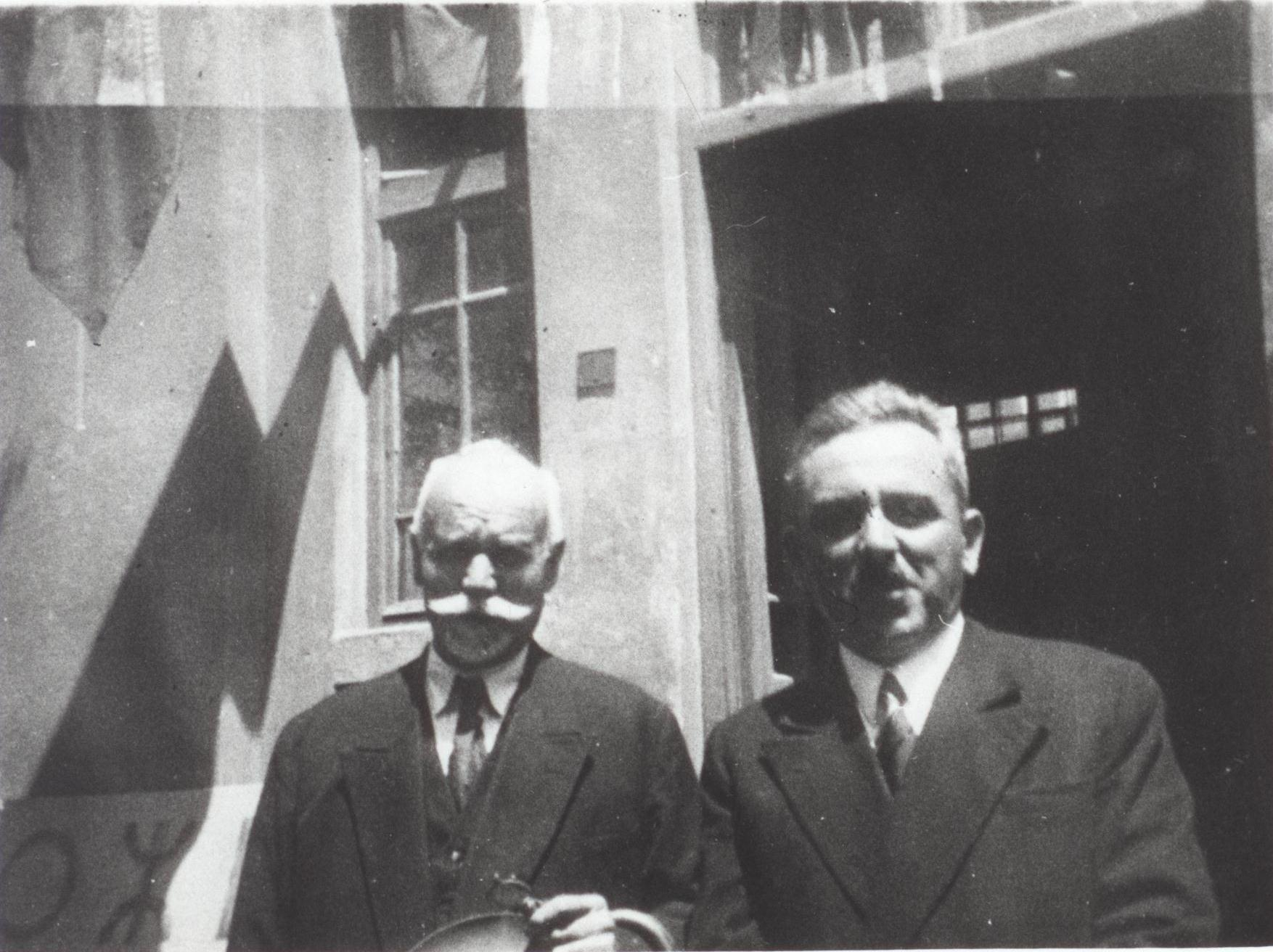 Photo of Bulgarian sculptors Zheko Spiridonov and Ivan Lazarov, circa 1935